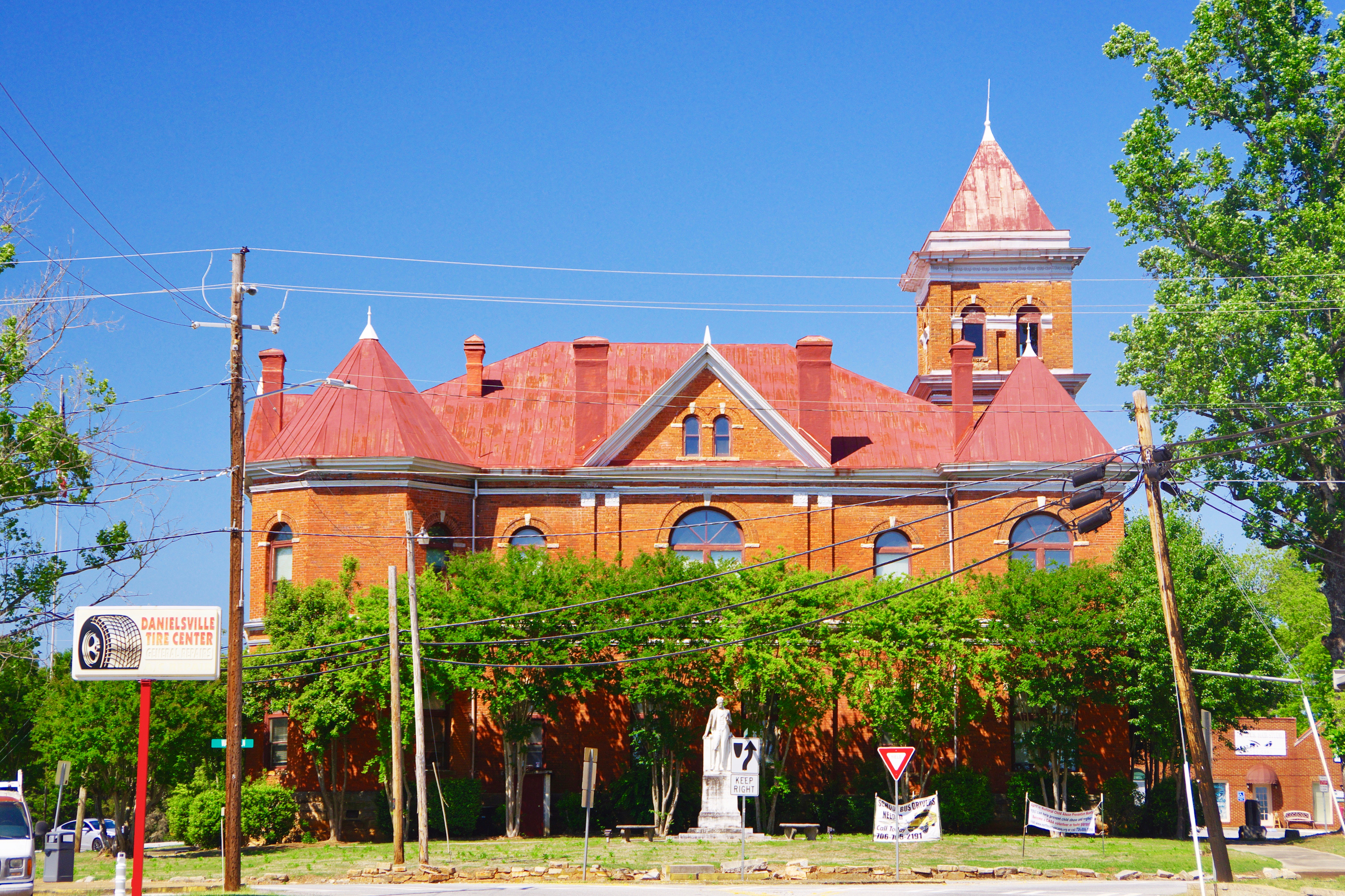 Madison County Courthouse in Danielsville, Georgia, United States